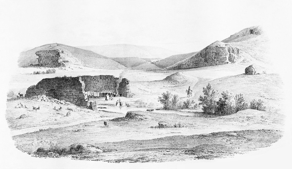 ruins of the Panathenaic Stadium from "Panorama of Athens" (version: Munich, 1841)